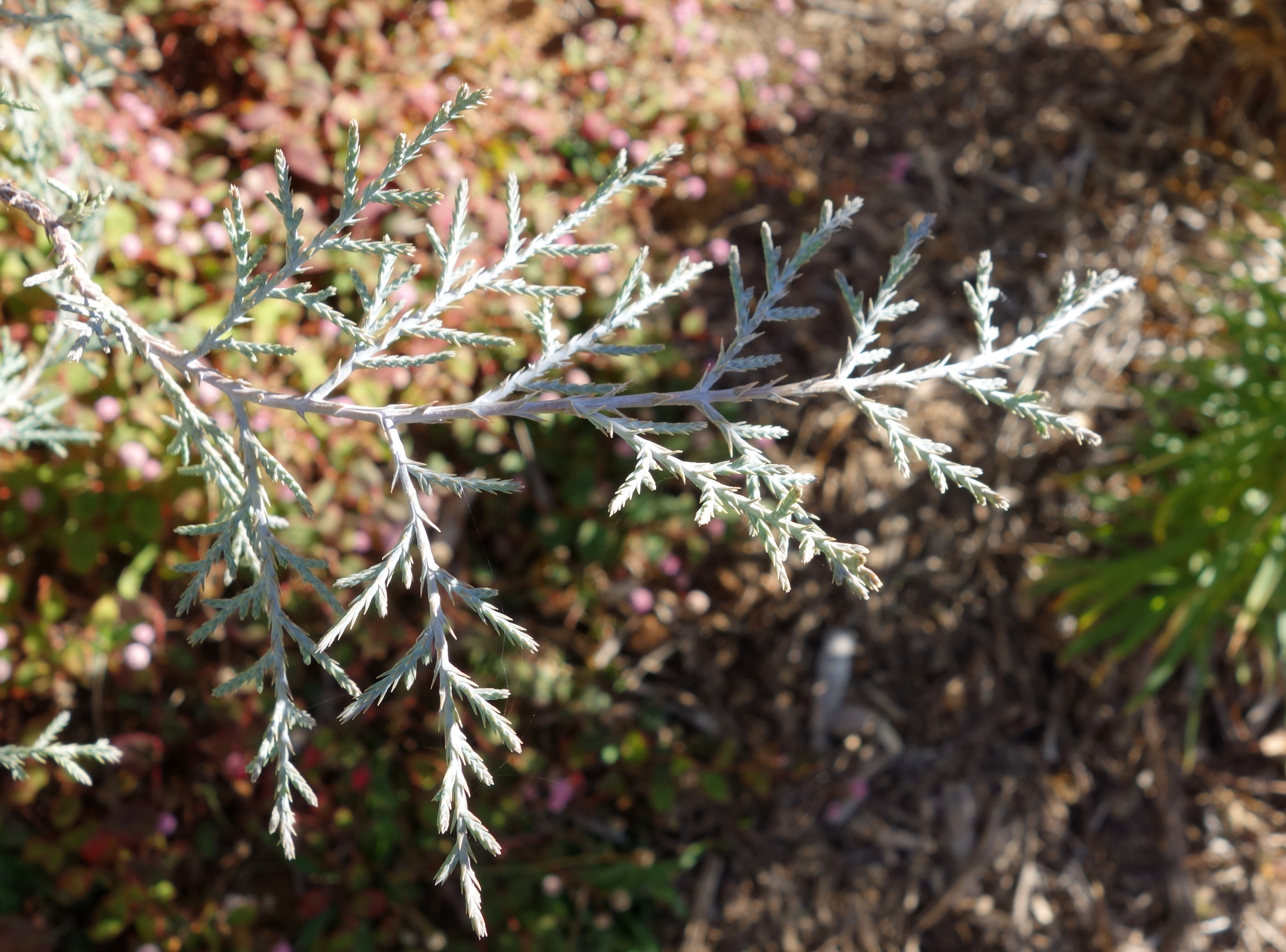 Botanical specimen in Quarryhill Botanical Garden, Glen Ellen, California, USA.